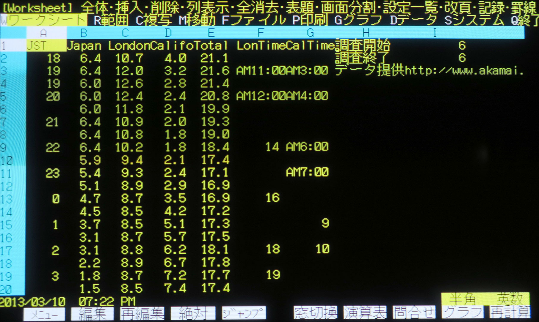 Screenshot of a spreadsheet created with Lotus 1-2-3 R2.2J for NEC PC-9800 series. Lotus 1-2-3 Release 2.2J (Japanese version) was released in 1990 by Lotus Development Corporation. The series was originated from Lotus 1-2-3 Release 2J of 1986 in Japan, and the first version was for IBM PC in 1983 in the United States.